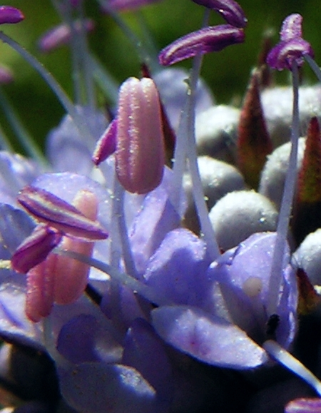 The fragment of the inflorescence of the devil's bit scabious (Succisa pratensis). Moscow region, Russia.